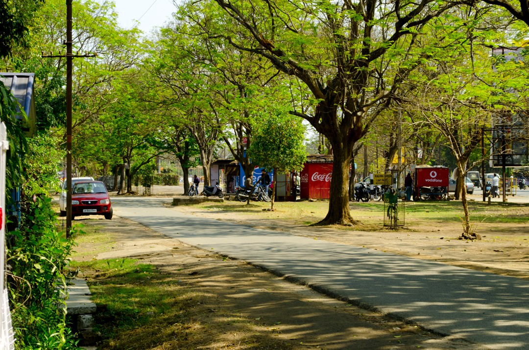 This is street of Jamshedpur in the Kadma locality near the Kadma - Sonari Link Road.